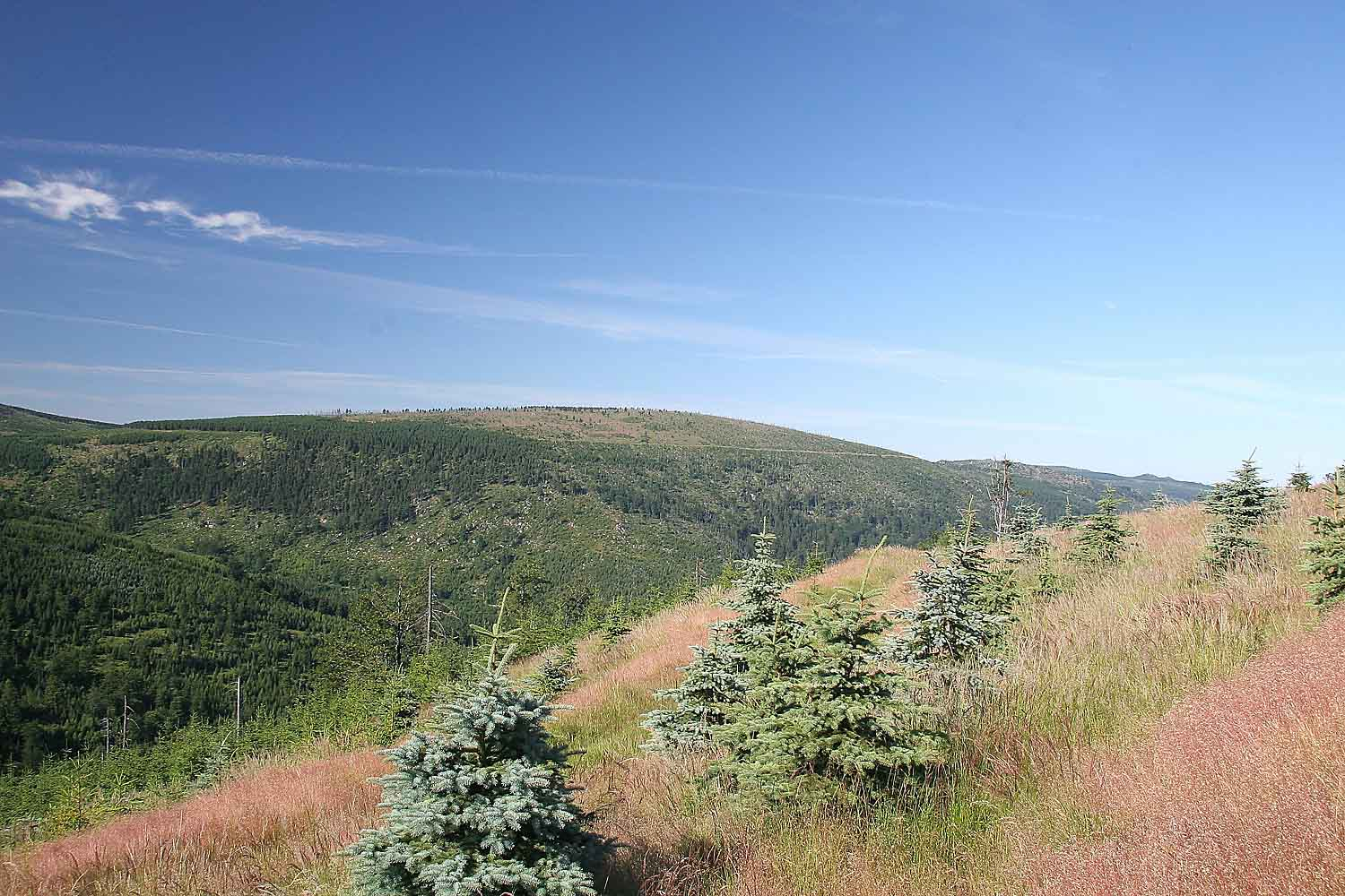 Smědavská hora z cesty k vyhlídce Paličník, Jizera Mountains, district Liberec, Czech Republic